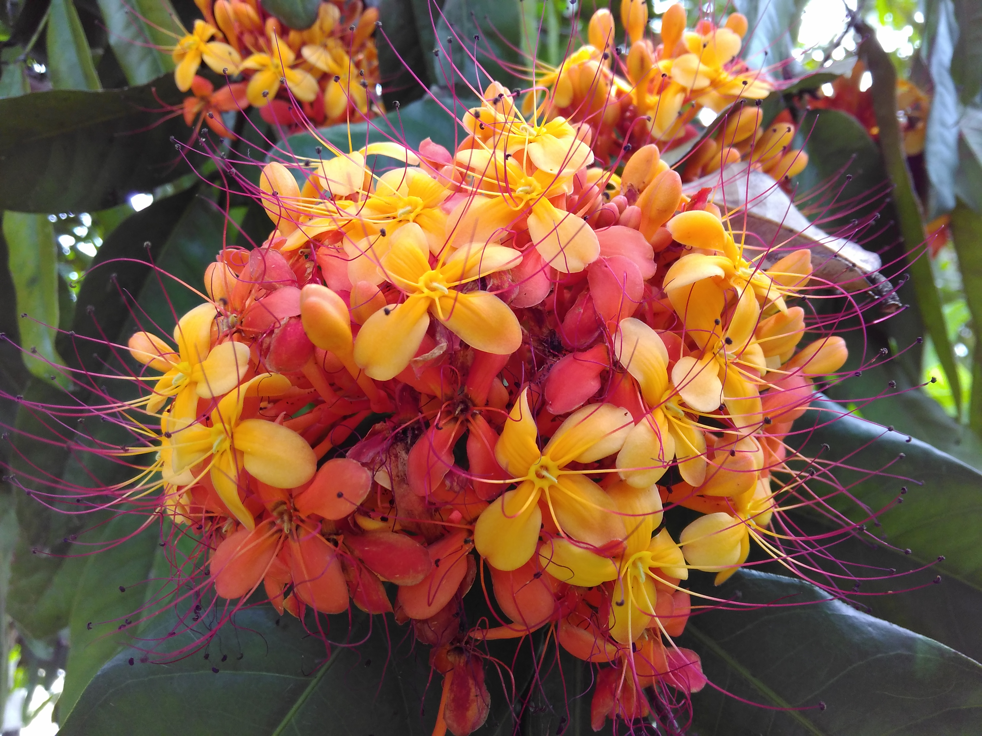 Flowers of Ashoka Tree